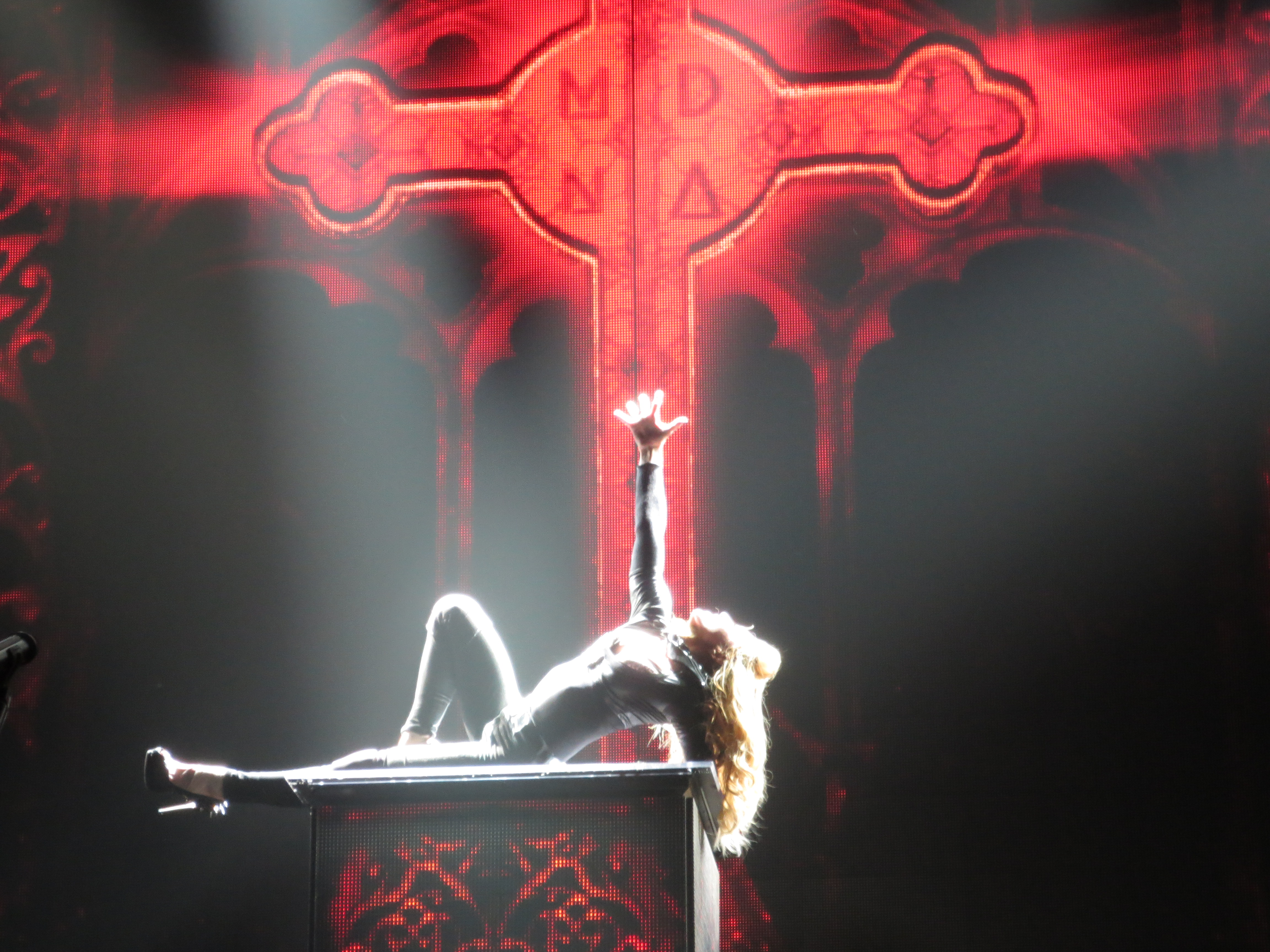 2012 10-25 MDNA Madonna Houston (136)